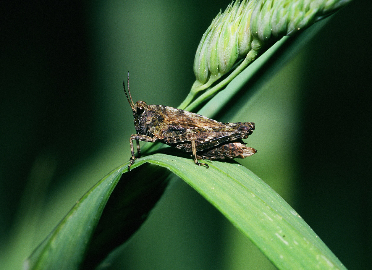 Tetrix spec.